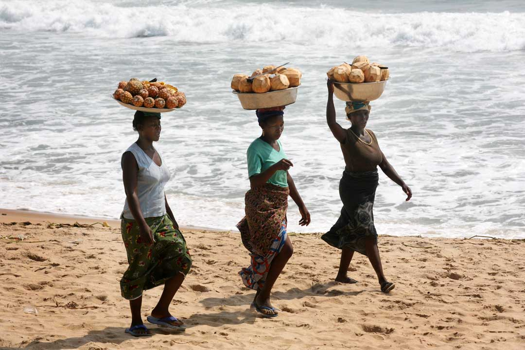 Bassam, Ivory Coast